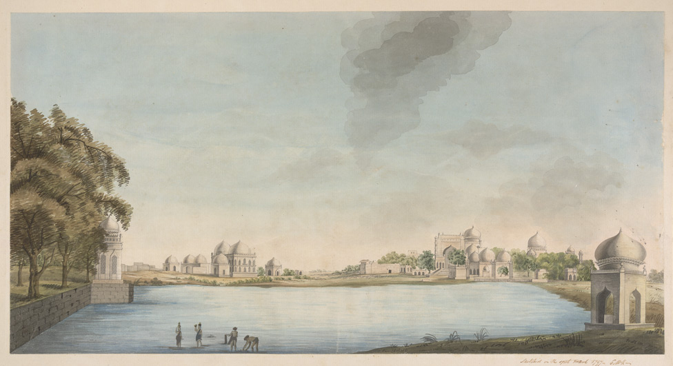 Tombs and shrine of Gisu Daraz, Gulbarga. March 1797; a watercolor by Colin MacKenzie* (BL)